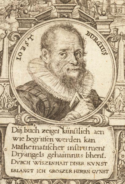 Portrait of Jost Bürgi